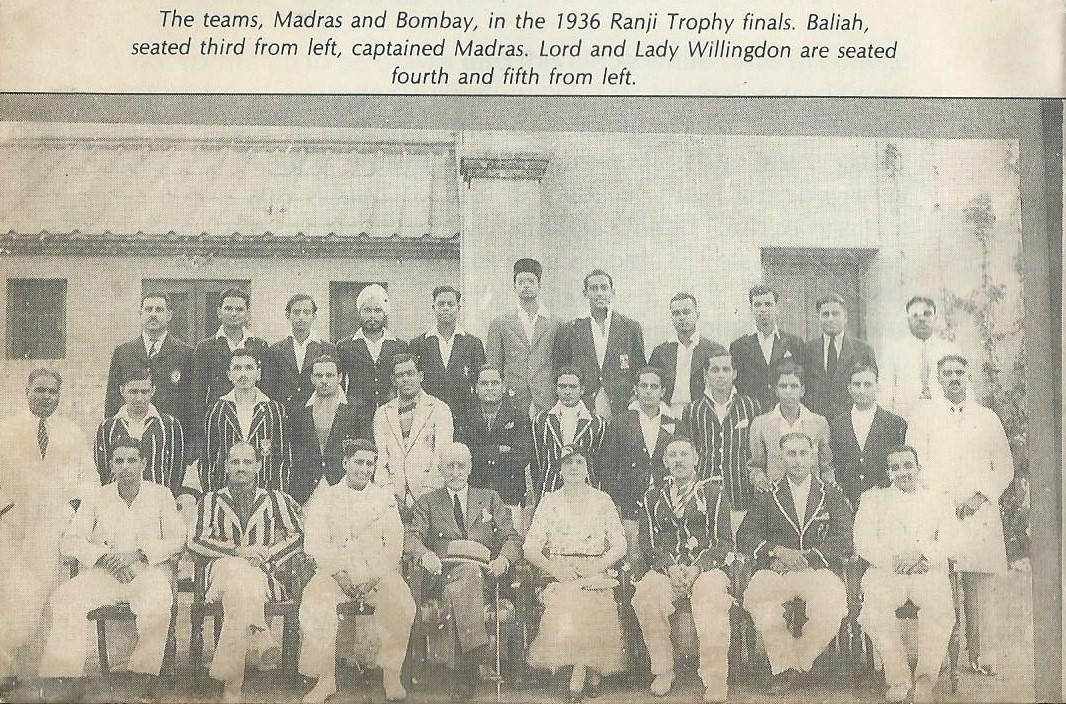 Madras and Bombay teams in the 1936 Rahji Trophy finals. Baliah Naidu, seated third from left, captained Madras. Lord and lady Willingdon are seated fourth and fifth from left.